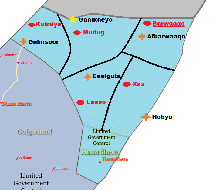 Denne mapen viser fylkene til Galmudug